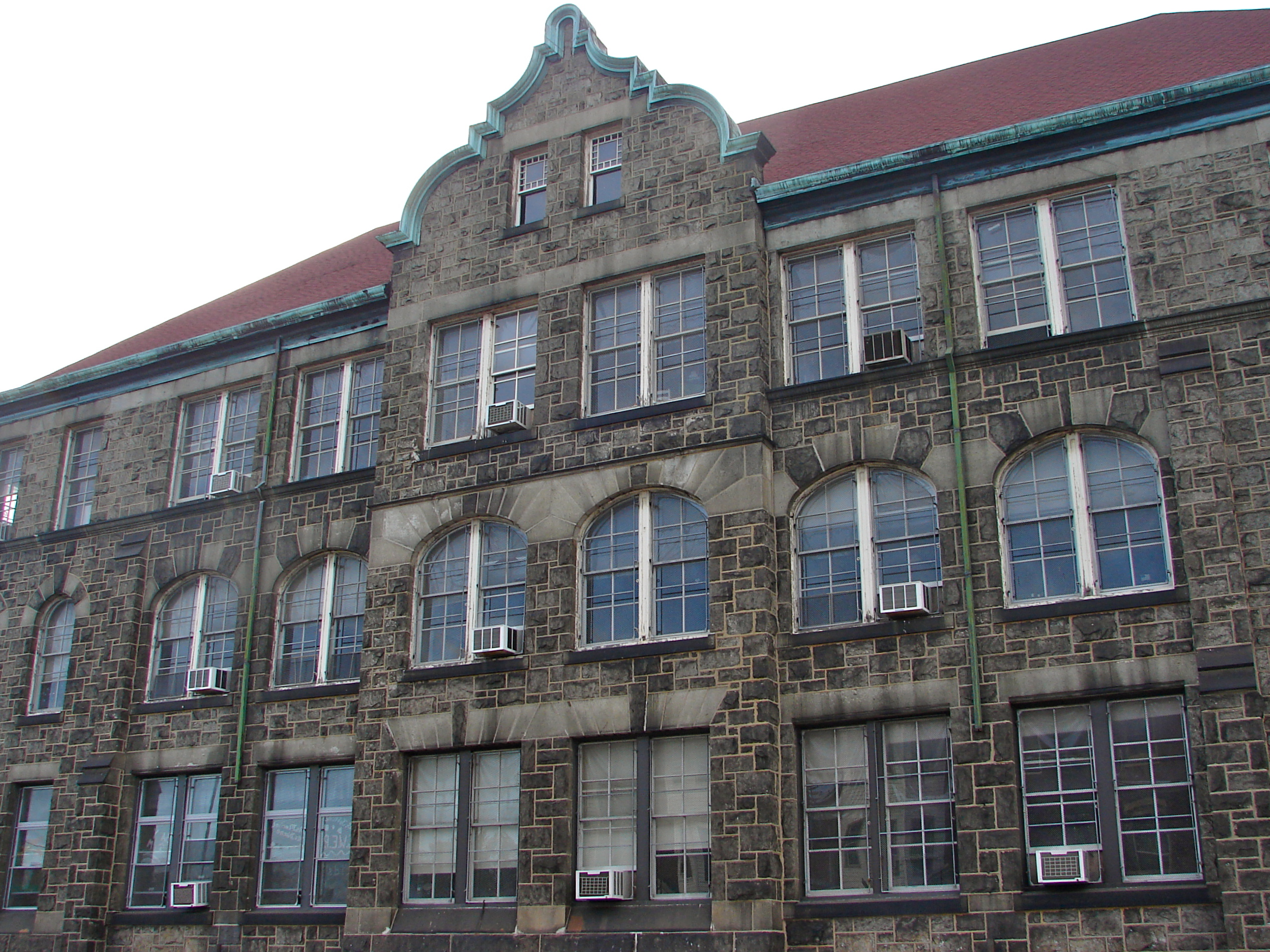 Thomas Powers School in Philadelphia on the NRHP since December 4, 1986. At 2801 Frankford Avenue in the NE Philadelphia neighborhood of Richmond.